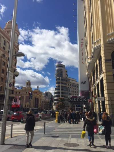 Gran via street madrid